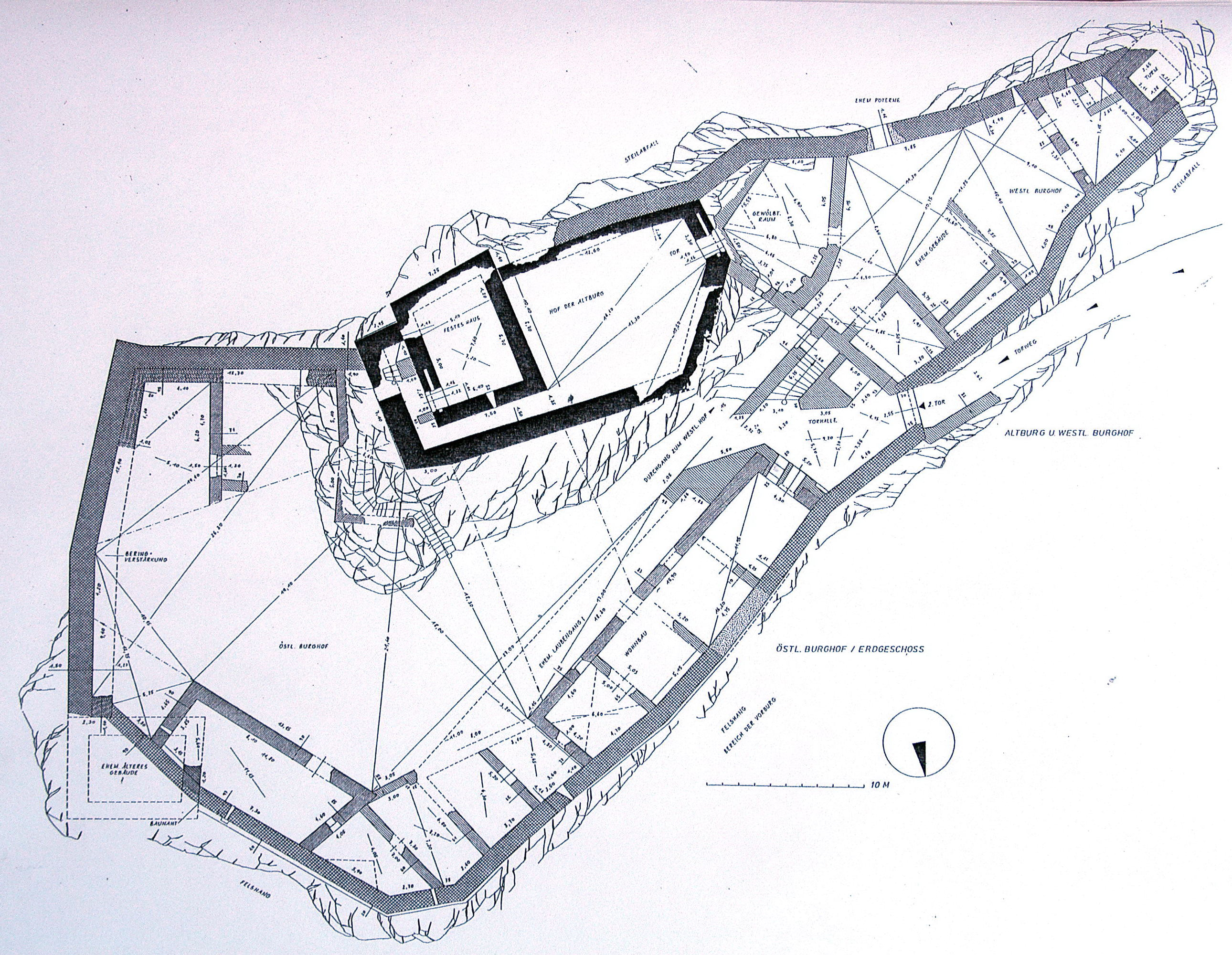 Floor plan of the castle ruin “Leonstein”, municipality Pörtschach am Wörther See, district Klagenfurt Land, Carinthia / Austria / EU